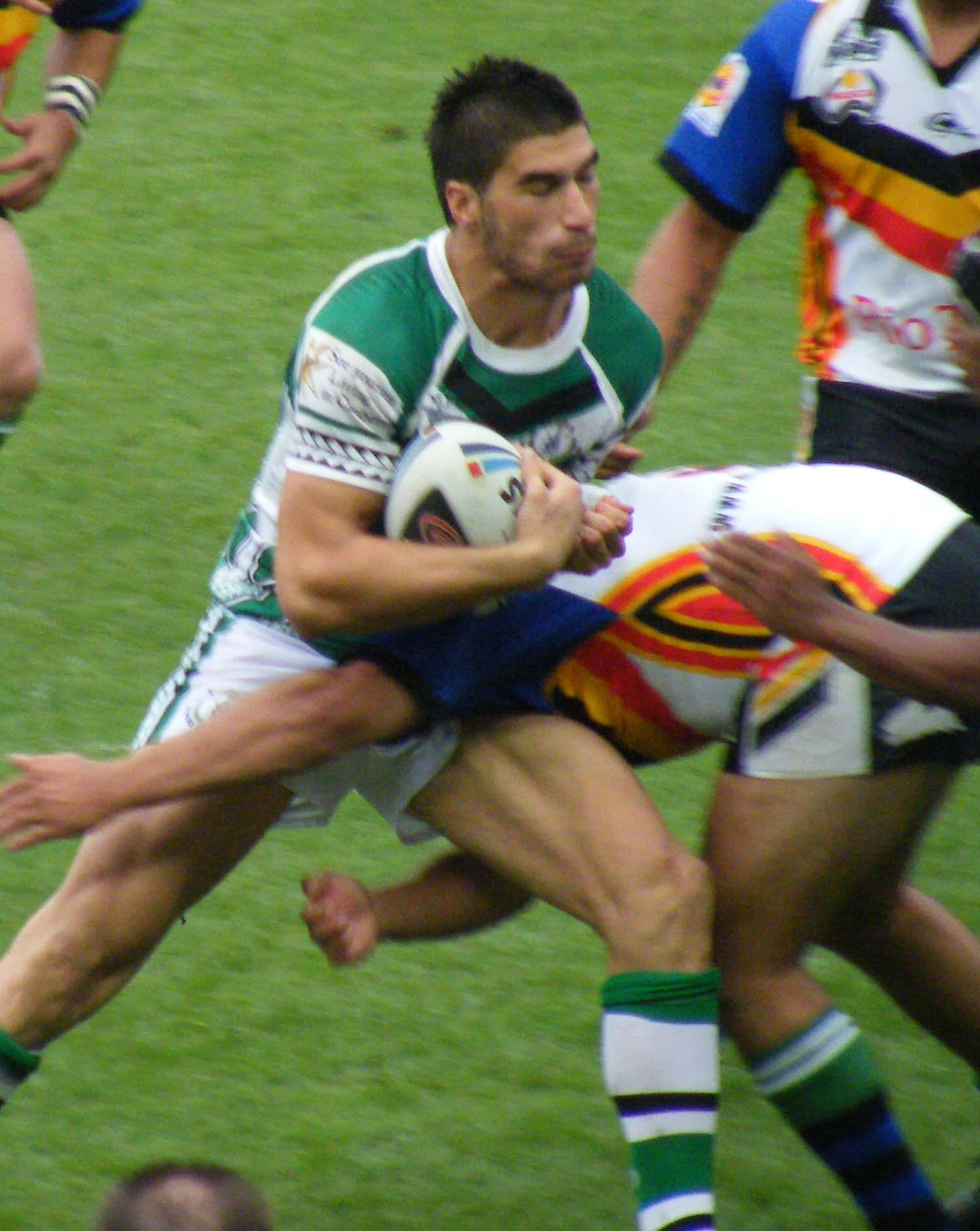 Maori interchange forward James Tamou. RLWC 2008 Aboriginal dreamtime team versus New Zealand Maori.